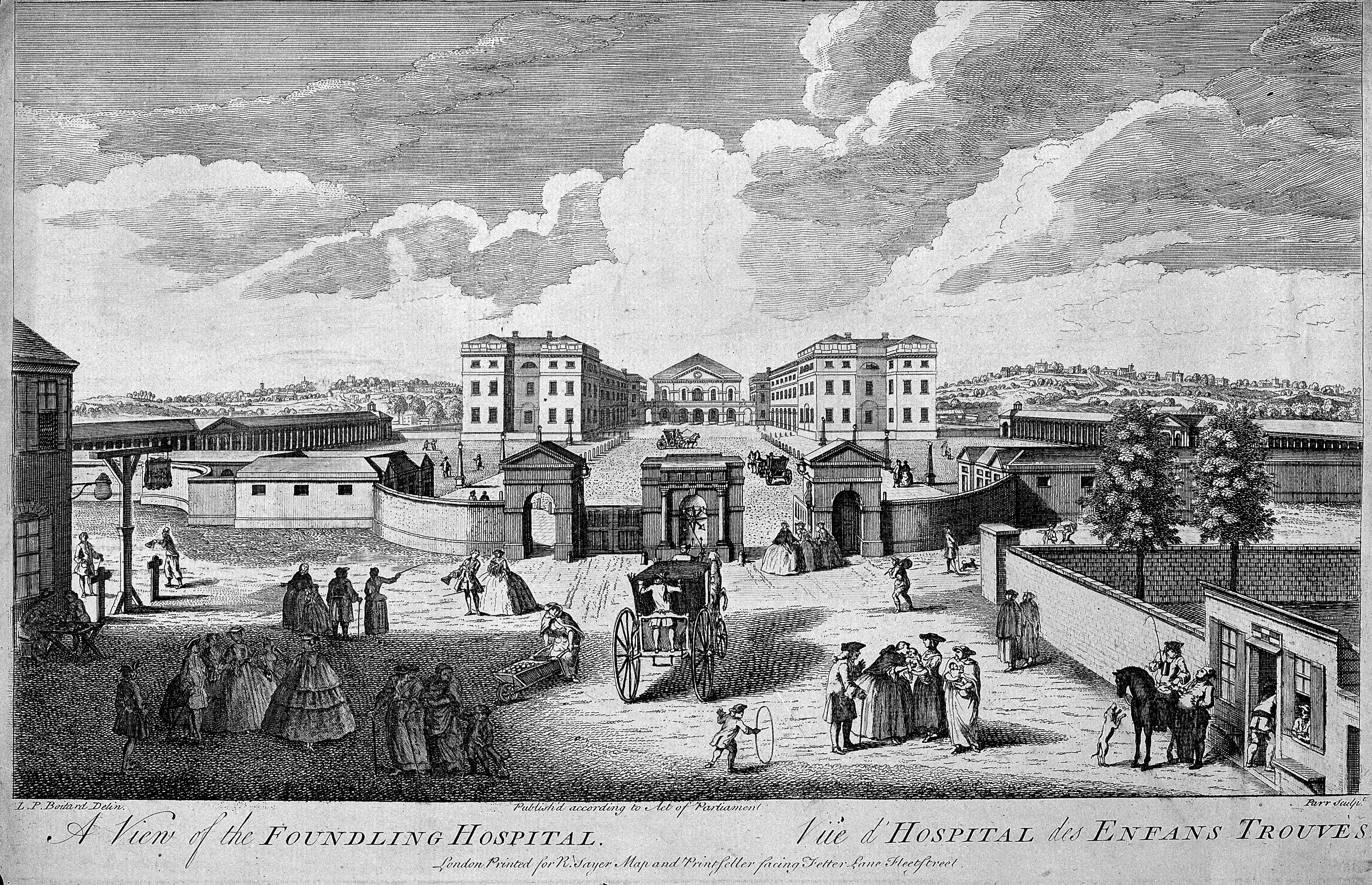 The Foundling Hospital, Holborn, London: a bird's-eye view of the courtyard, a busy scene in the street. Coloured engraving by N. Parr after L. P. Boitard, 1753. Iconographic Collections Keywords: Louis-Pierre Boitard; Theodore Jacobsen; Foundling Hospital (London); Nathaniel Parr